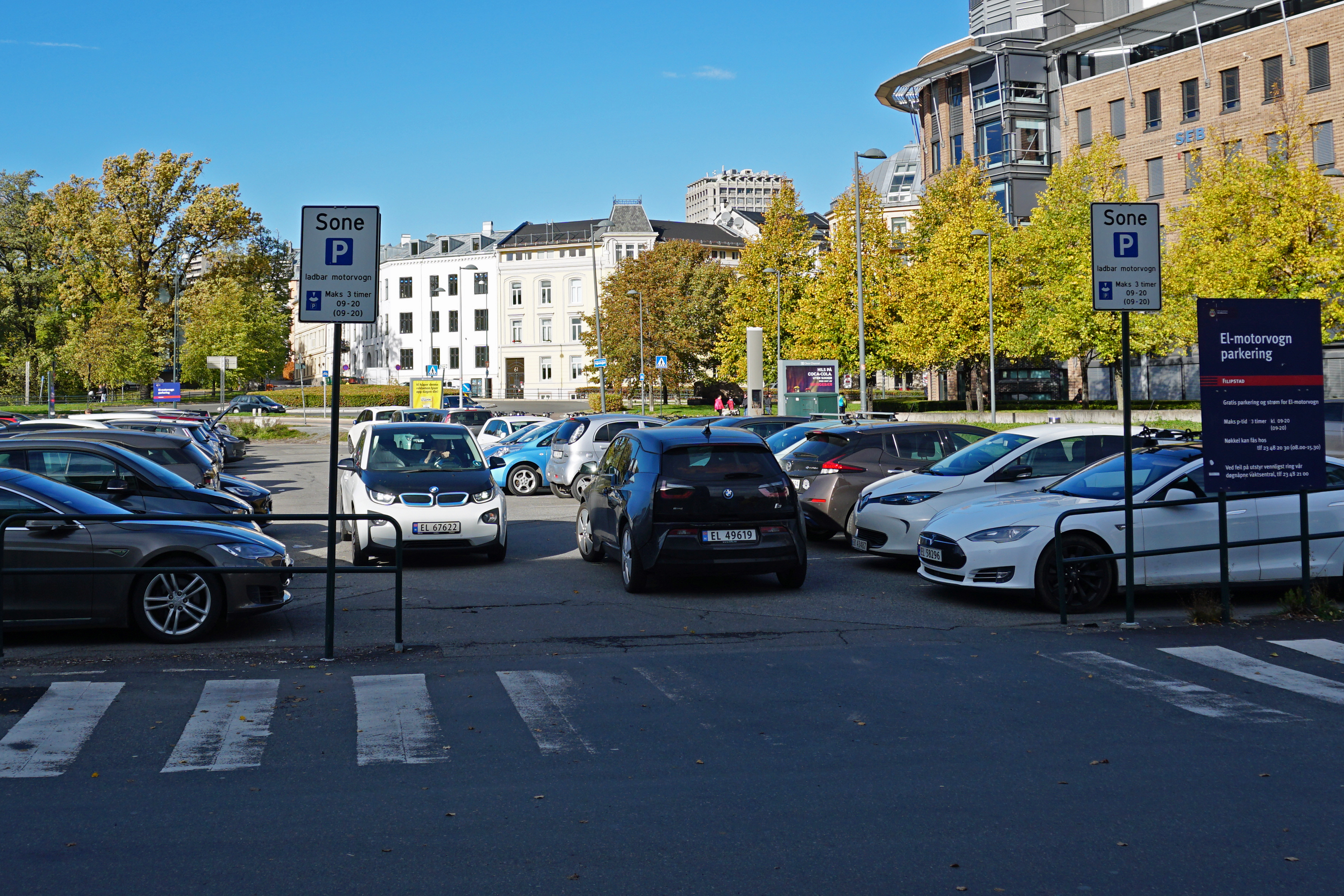 Two BMW i3s at the entrance of a dedicated parking lot for EVs in Oslo, Norway.